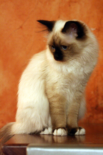 7 month old Birman Kitten from Koc-Pol Cat*PL cattery